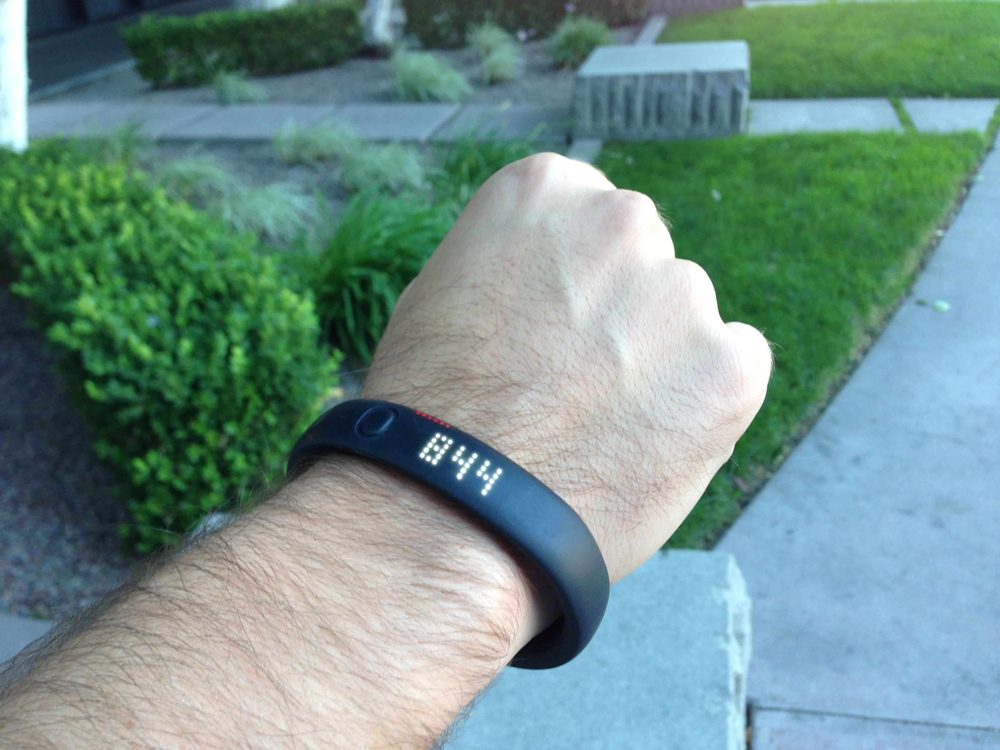 Nike FuelBand is a wearable computer that has become one of the most popular devices driving the so-called "quantified-self" trend. See more: Intel Hires Nike FuelBand Design Engineer, Oakley Designer Former Nike engineer says wearable technology redefines hardware, but is heavily dependent on software. Intel has quietly hired two high-profile engineers who have joined the company's secretive "new devices" group run by Mike Bell. Steve Holmes, one of the designers who worked on the popular Nike FuelBand, was hired about 12 months ago and Hans Moritz, who led development of the Oakley Airwave heads-up goggle display, Switchlock series eyewear and watch program, was just recently hired.